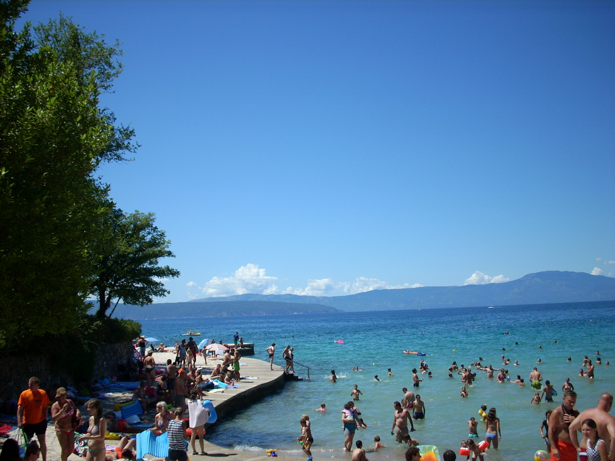 Beach Haludovo. View toward the northwest. Malinska, Island Krk, Croatia.